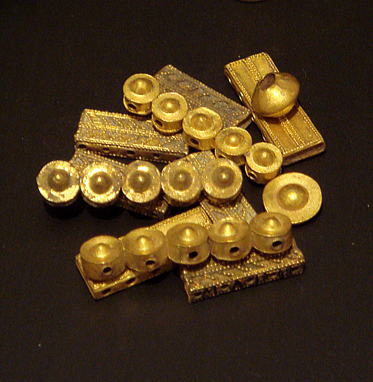 Souttoukeny Jewelry 2nd Century BCE